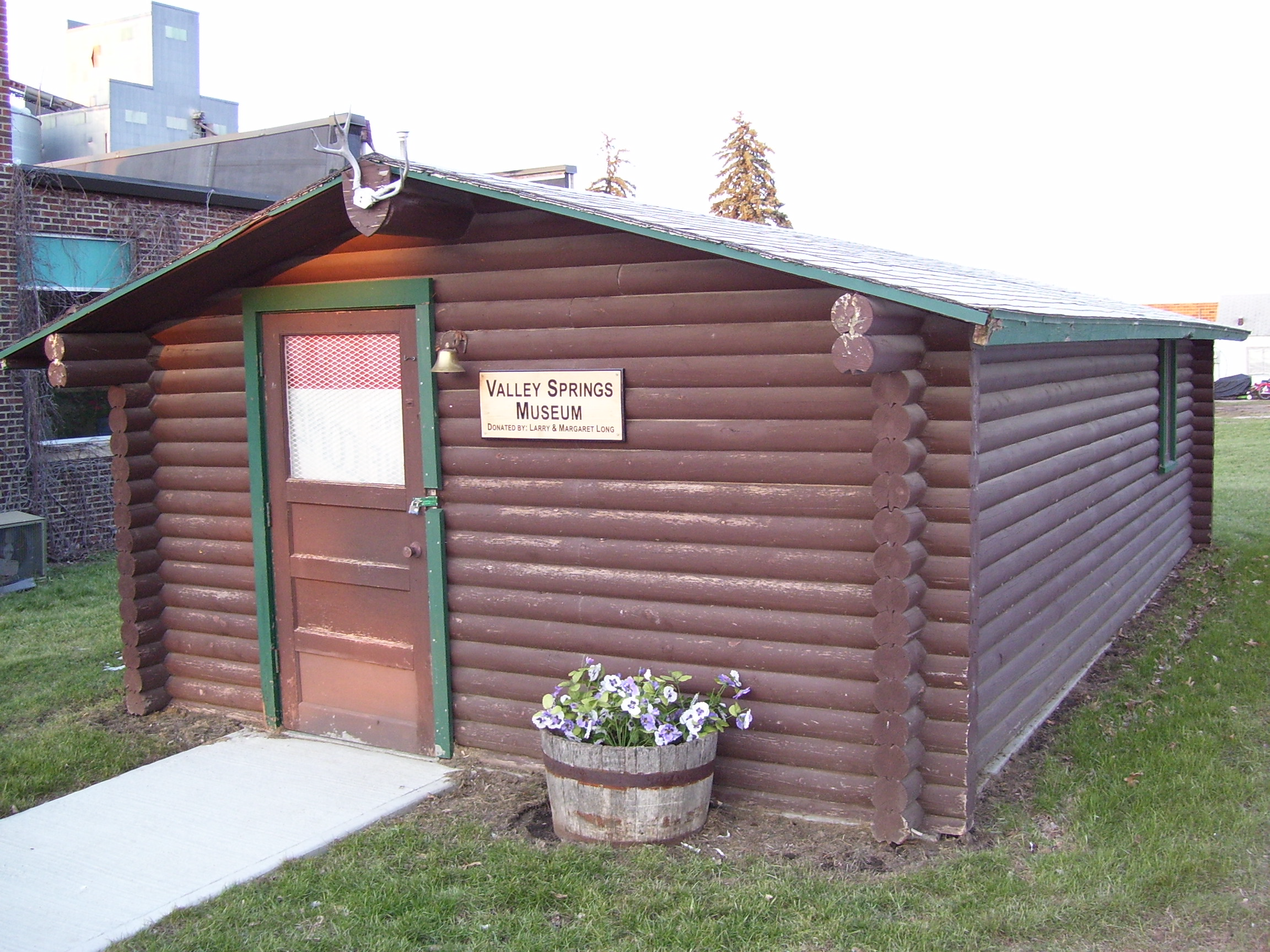 The museum in Valley Springs, South Dakota. My own work.